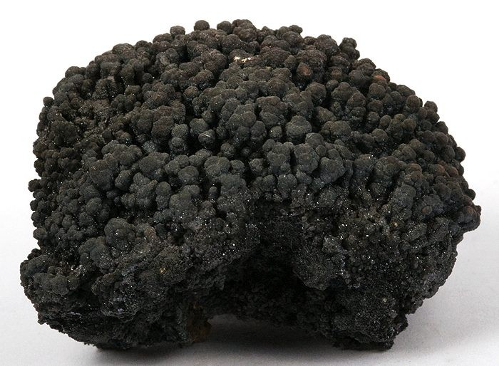 Chalcophanite Locality: Cole Mine (Cole shaft; Cole No. 3), Bisbee, Warren District, Mule Mts, Cochise County, Arizona, USA (Locality at ) Size: 5.5 x 4.2 x 3.4 cm. Chalcophanite is a rare zinc, iron, manganese hydroxide. This fine, 3-dimensional, mammilary crust from the Cole Shaft at Bisbee is composed entirely of sparkly, purplish-black chalcophanite botryoids. The very rich Cole Shaft produced ore intermittently from 1905 to 1975. Complete all-around and pristine, with only contacting at the base. Ex. Mark Bandy and Dave Stoudt Collections. Mark Bandy was a very prominent American mining engineer and mineral collector who died in 1963.